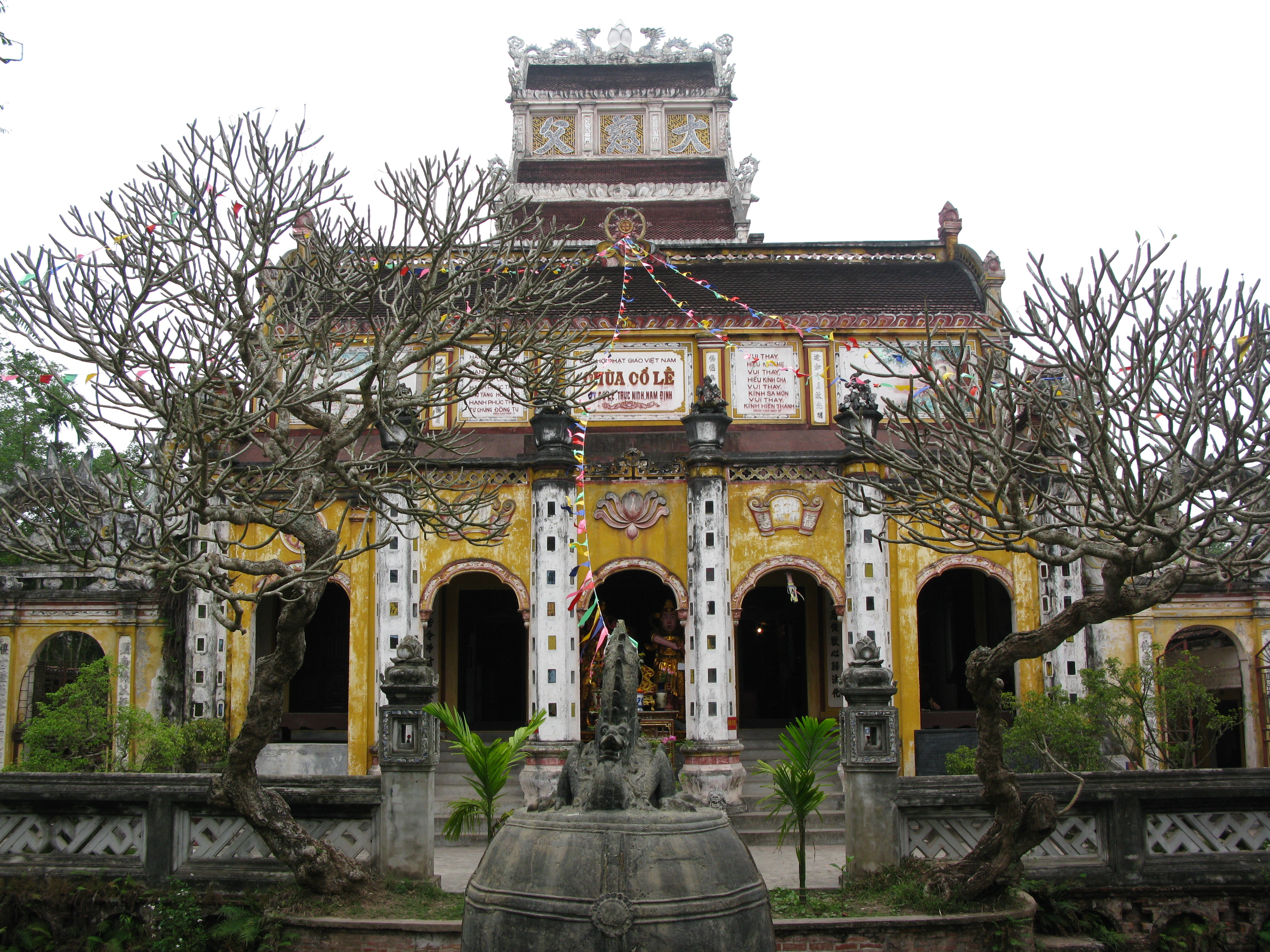 The main building - Thần Quang Pagoda - in Co Le Pagoda.